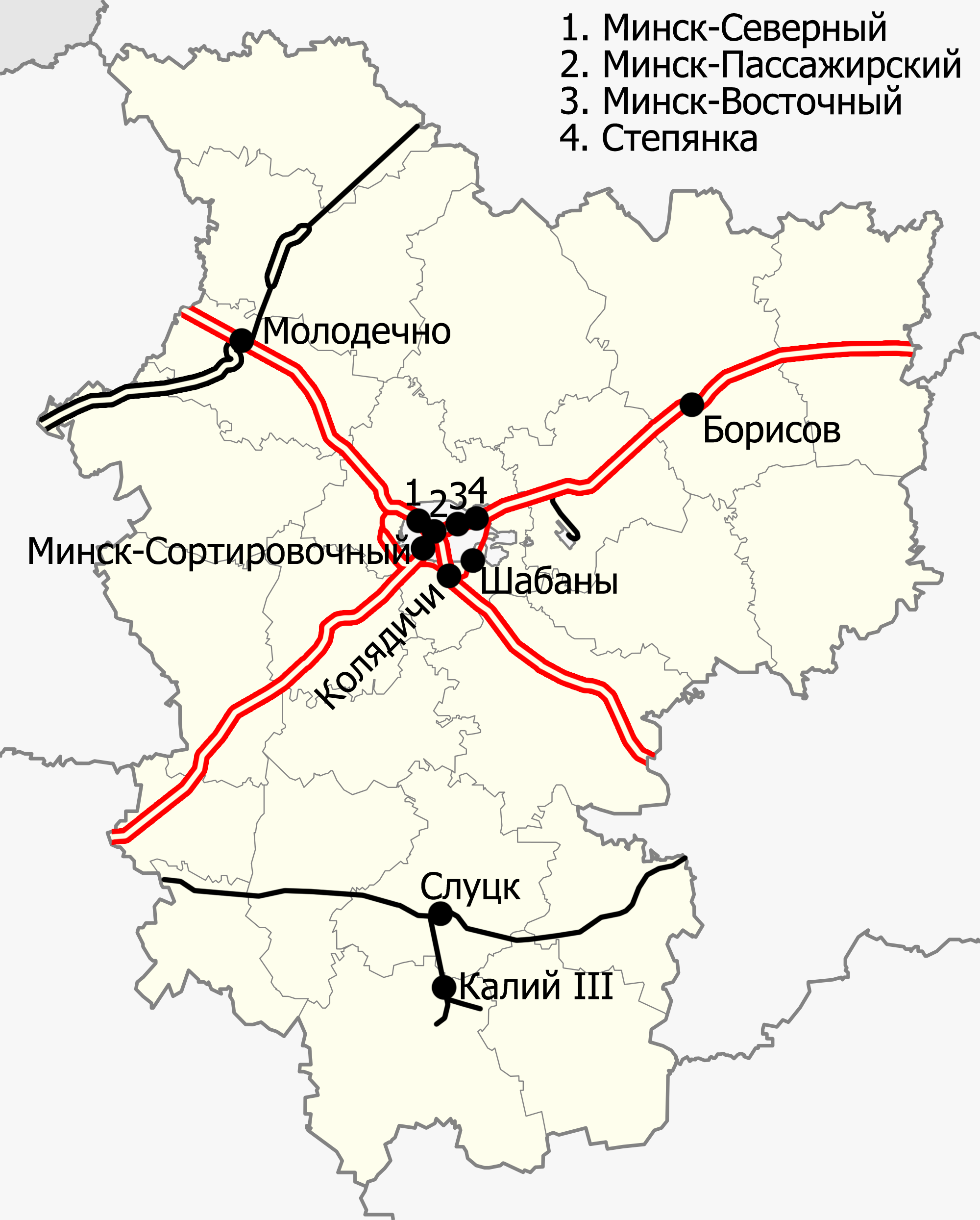 Railroads in Minskaja voblasć (Belarus) with main stations signed (in Russian). Electrified lines are in red.